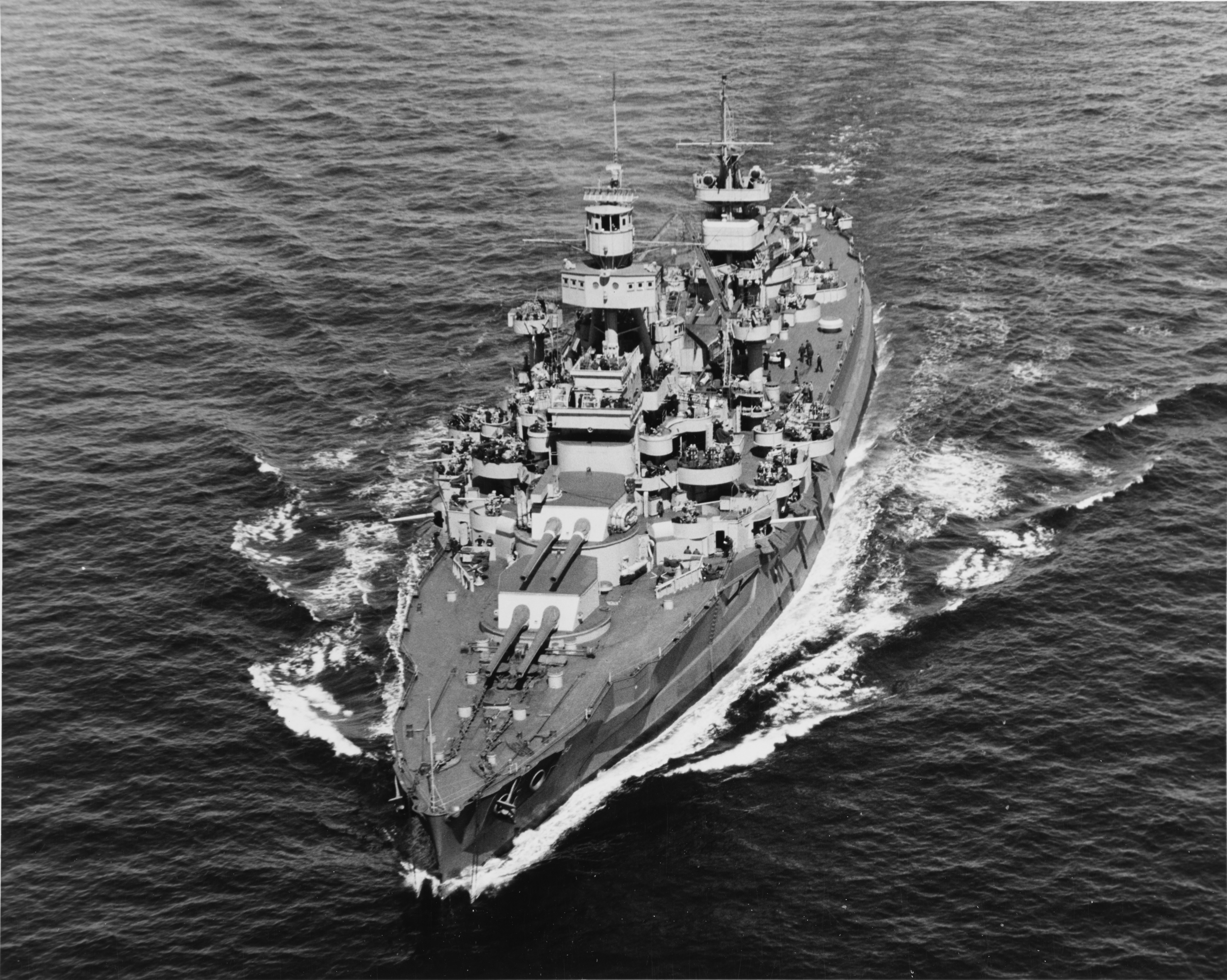 Underway off the U.S. east coast, 11 April 1944. Photographed from a blimp of squadron ZP-11. Official U.S. Navy Photograph, now in the collections of the National Archives.